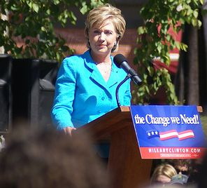 Hillary Clinton in Concord, New Hampshire